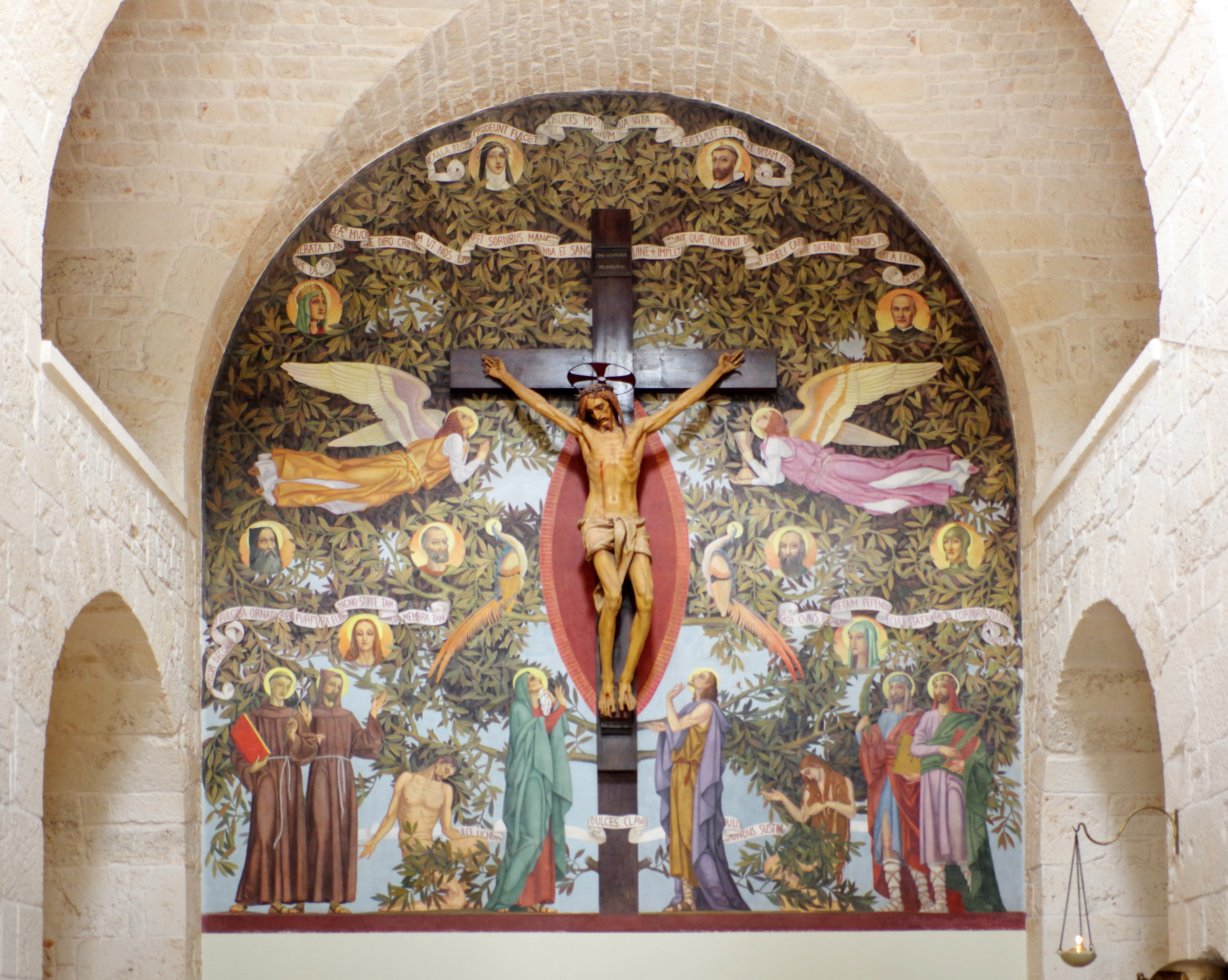 Italy, Alberobello, Trullo church St. Antony of Padua